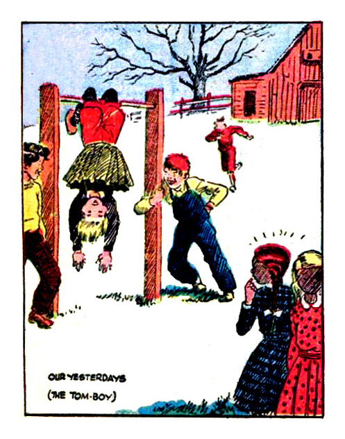 Gag strip from Tip Top Comics number 152 (United Features, March 1949). Ed Dodd's Back Home Again compared "the good old days" of the early 1900s to life in the postwar era. In this scene, an archetypal tomboy is shown playing with the boys while two other girls look away in disapproval (a reference to the rigidly enforced gender norms of the 1940s). Derived from this public domain image.